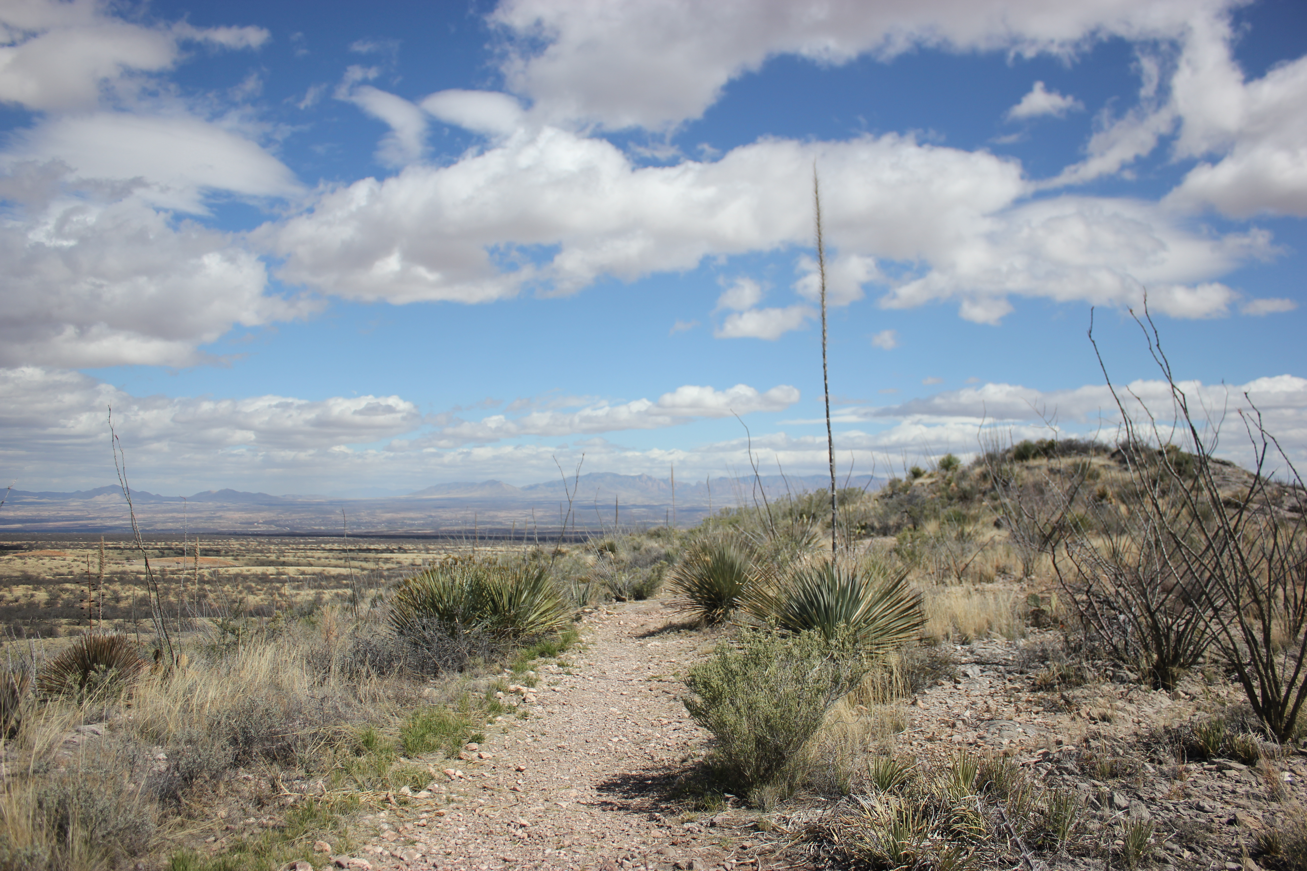 A view of the Whetstone Mountains, from Foothills Loop Trail. The trail departs from Kartchner Caverns State Park.